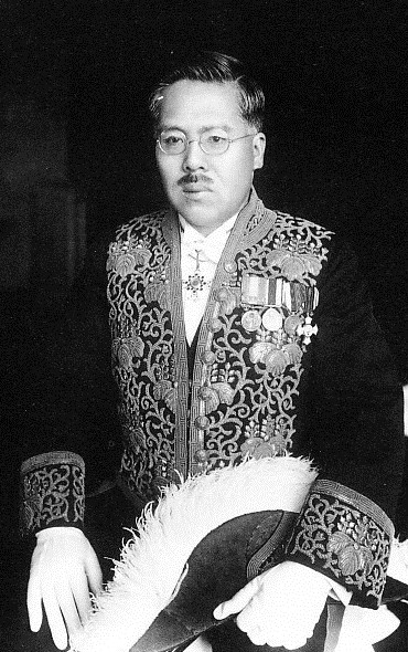 Hidehiko Ishiguro